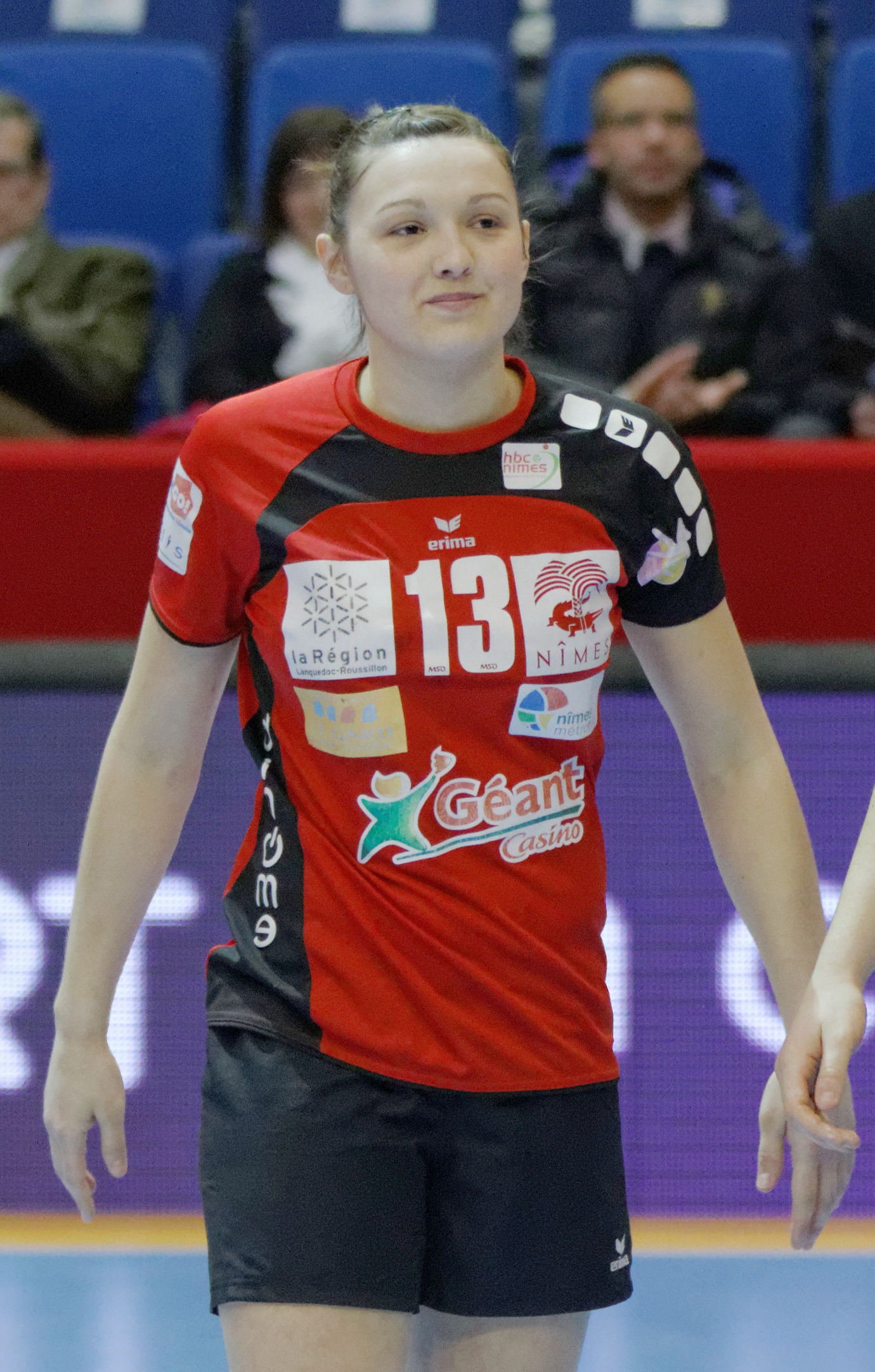 Final of the Women's handball French cup 2013. Handball Cercle Nîmes vs Issy Paris Hand, stadium Pierre-de-Coubertin at Paris.